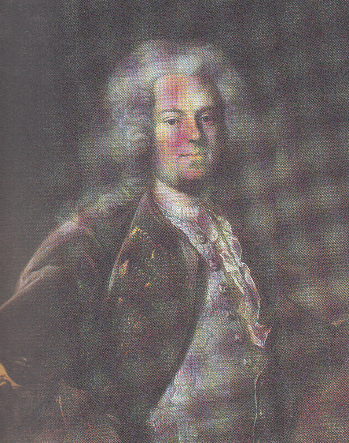 Portrait of Carl Gustaf Tessin by Johan Henrik Scheffel 1726